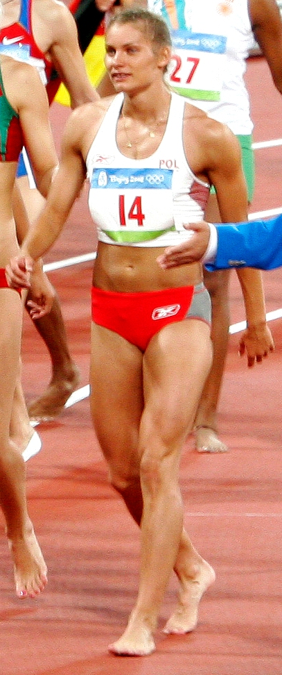 Polish heptathlete Kamila Chudzik walks with other competitors around the track at the 2008 Summer Olympics in Beijing, China.